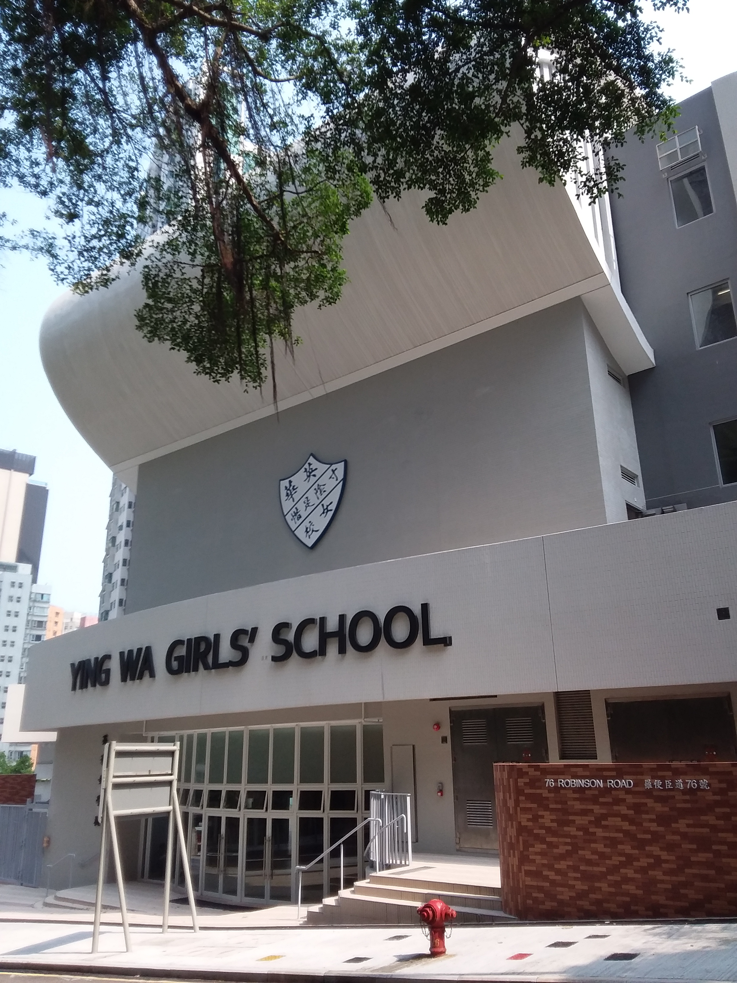 HK 半山區 Mid-levels 羅便臣道 Robinson Road 英華女學校 Ying Wa Girls' School April 2019